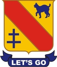 Crest of the 324th Infantry Regiment, United States Army